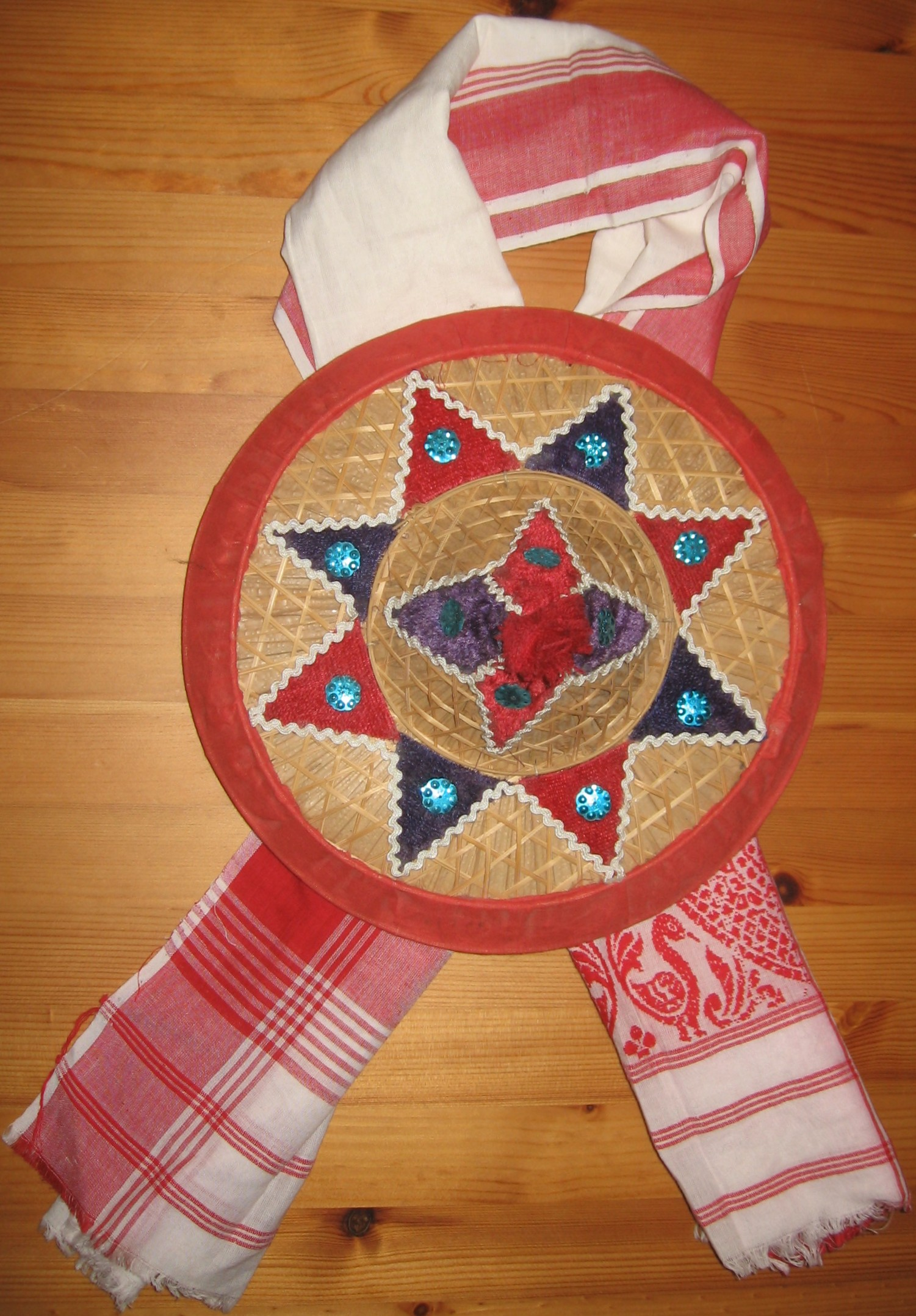 Photograph of a decorative Assamese Jaapi laid over a Gamosa.